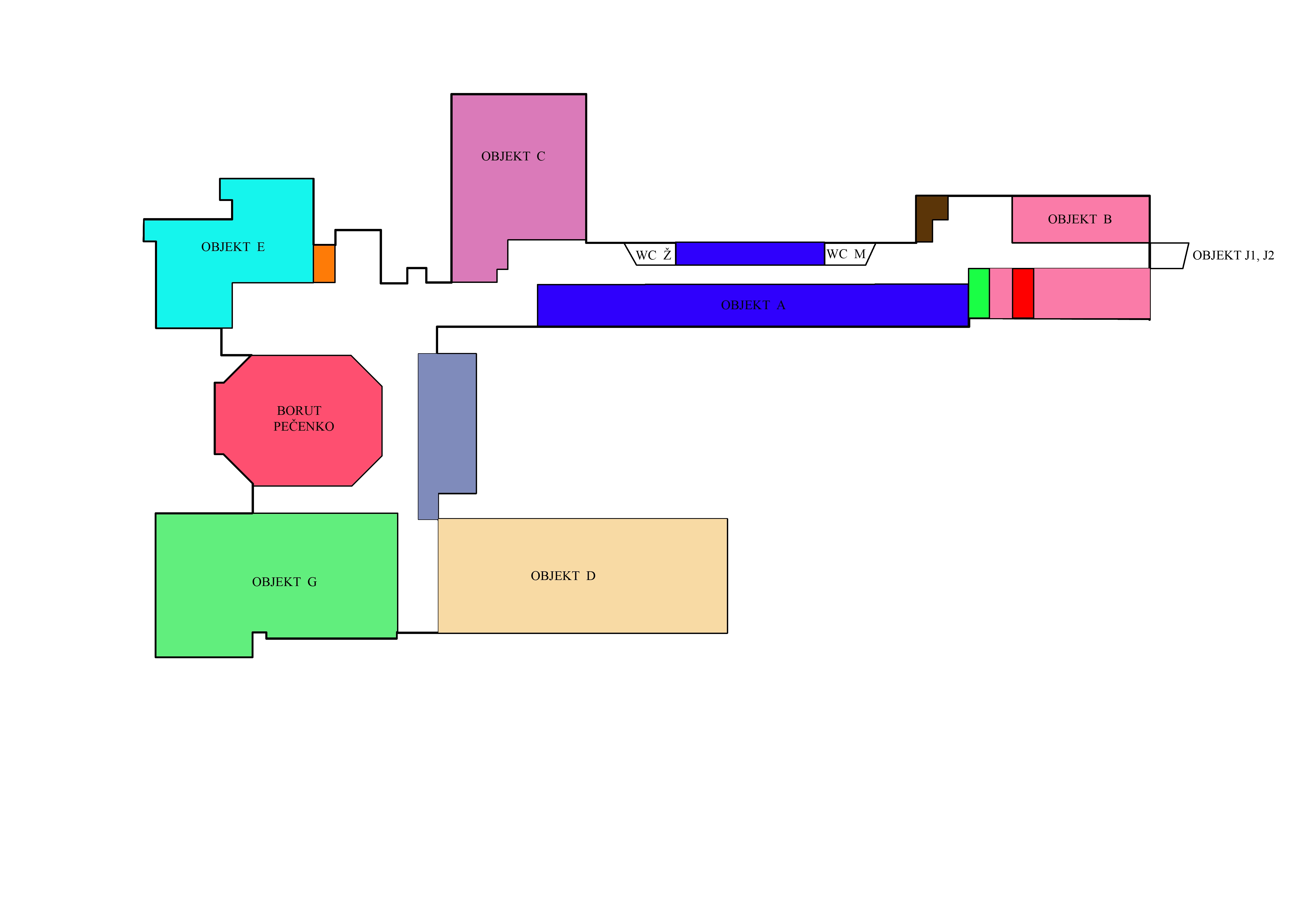 Map of the Faculty of Electrical Engineering and Informatics at the University of Maribor.